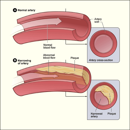 The illustration shows a normal artery with normal blood flow (figure A) and an artery containing plaque buildup (figure B).